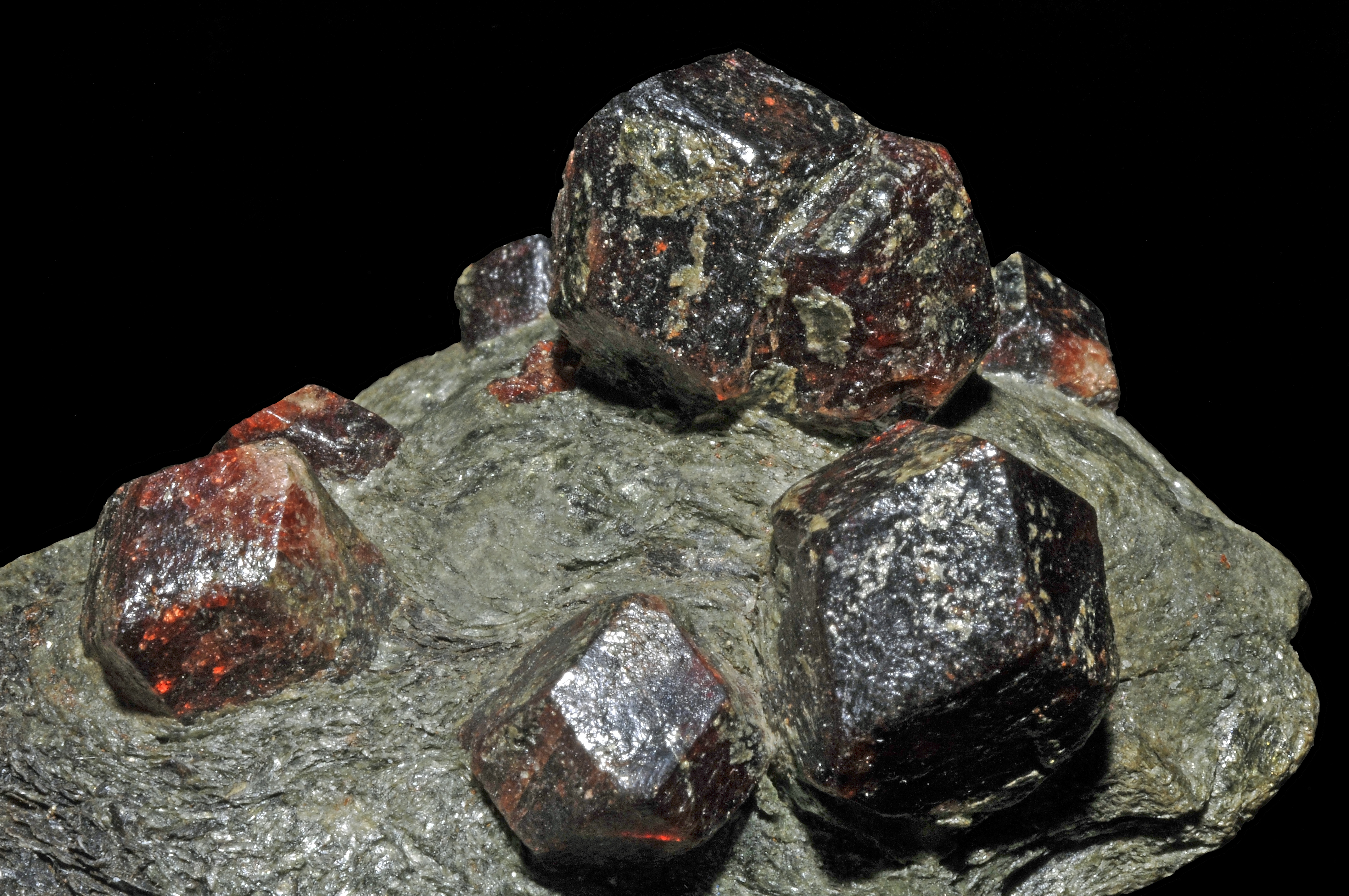 garnet var. almandine, micas : Granatenkogel south slope, Seeber valley, Moso in Passiria (Moos in Passeier), Passiria Valley (Passeier Valley), Bolzano Province (South Tyrol), Trentino-Alto Adige, Italy